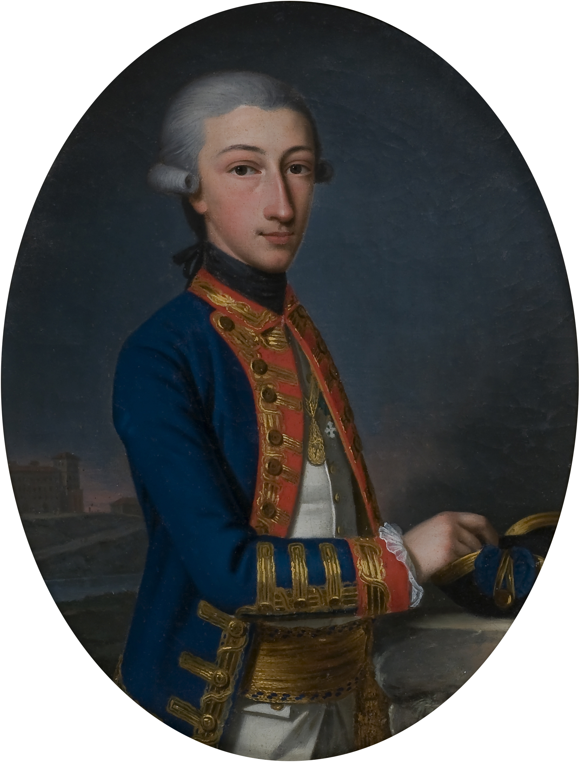 Prince Giuseppe, Count of Asti (1766-1802)